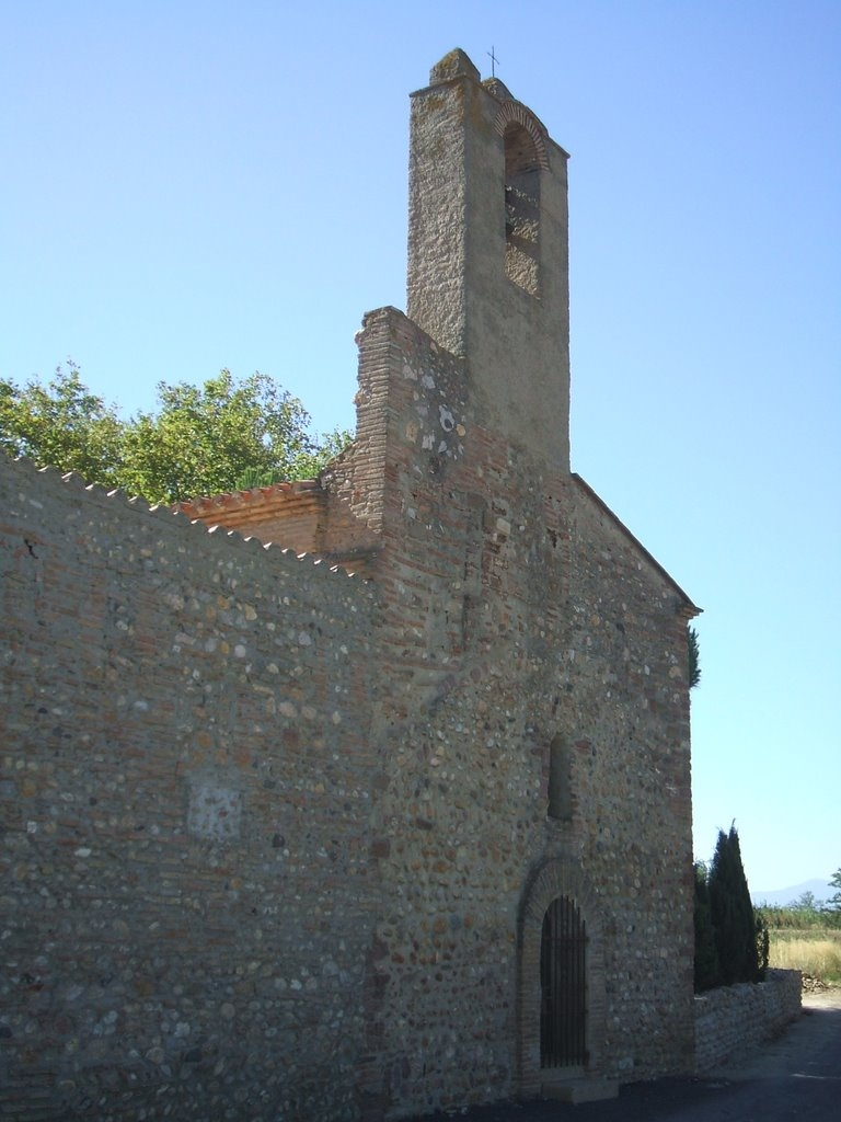 Claira : Saint Peter Chapel (XIth century, partially rebuild afterwards